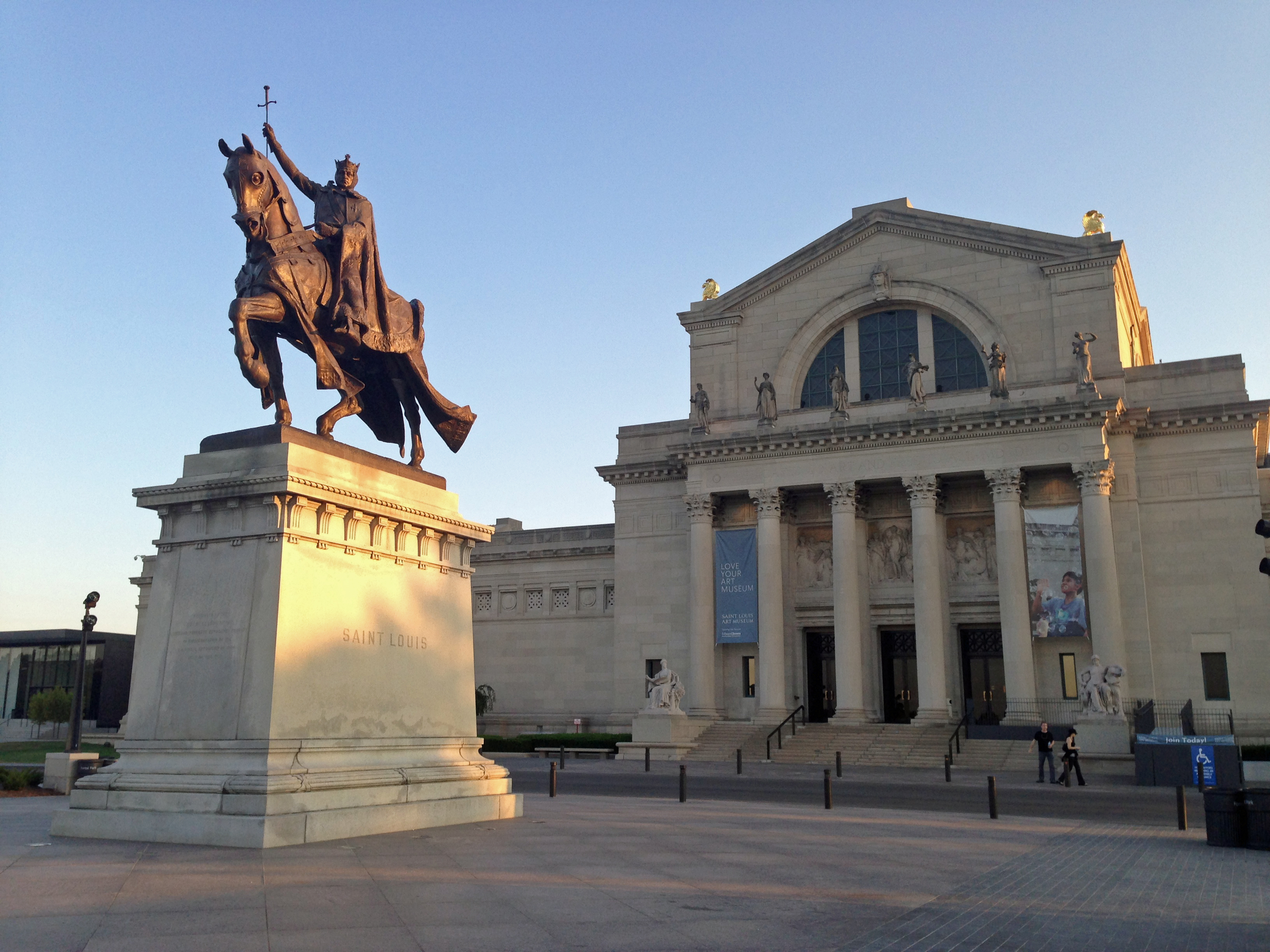 The front of the St. Louis Art Museum in Forest Park.